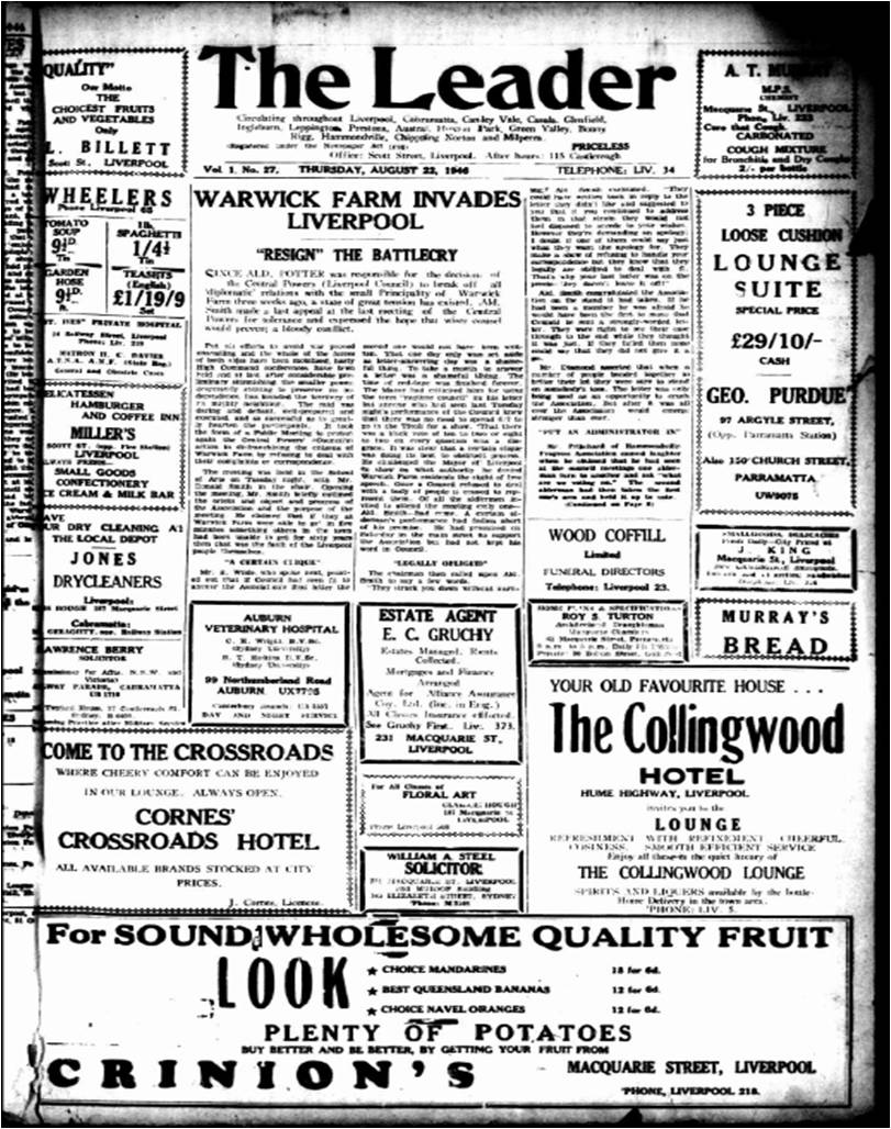 Coverpage of a historic newspaper from New South Wales, Australia.